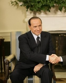 Silvio Berlusconi shaking hands with George W. Bush during Berlusconi's visit to the White House, 2005-10-31. Cropped version of this image